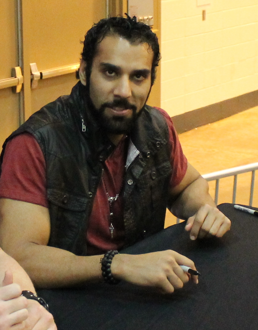 Mahal2014